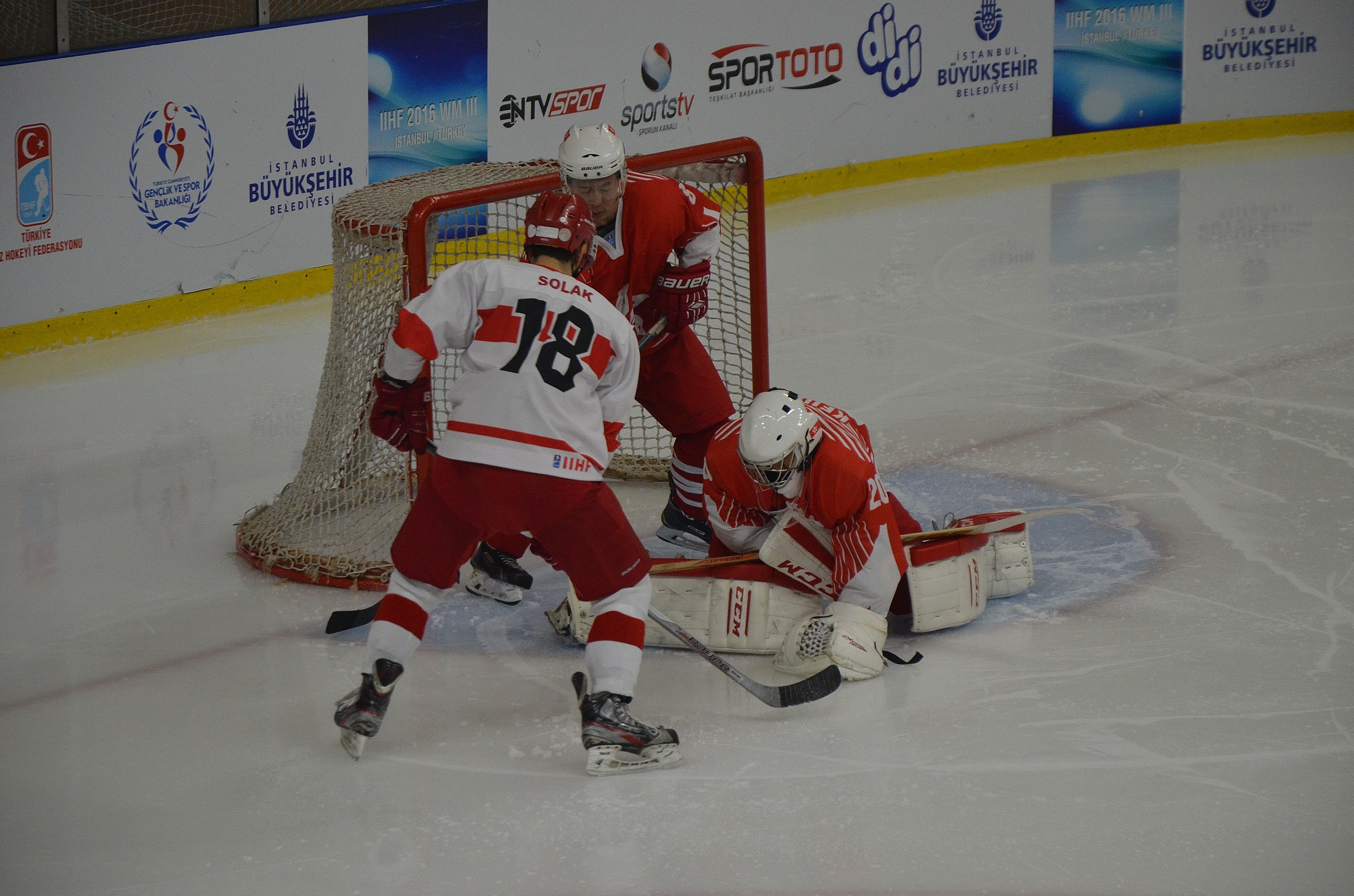 2016 IIHF World Championship Division III match Hong Kong (red/white) vs Turkey (white/red) at Silivrikapı Ice Rink in Istanbul, Turkey